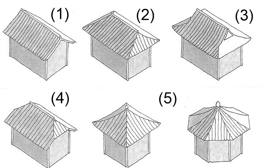 Japanese traditional roofs